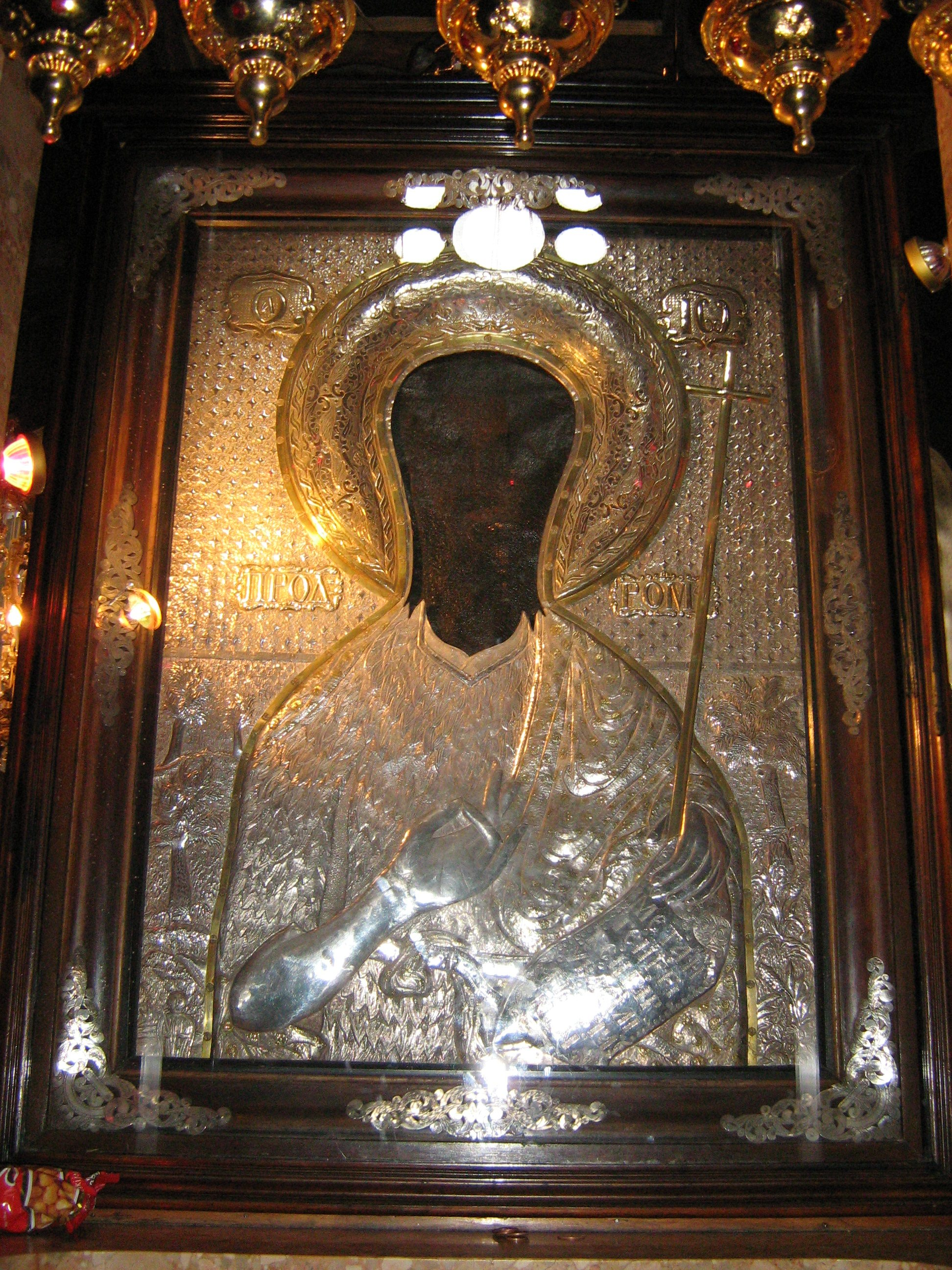 Icon of Saint John the Baptist, Čajniče, Republic of Srpska